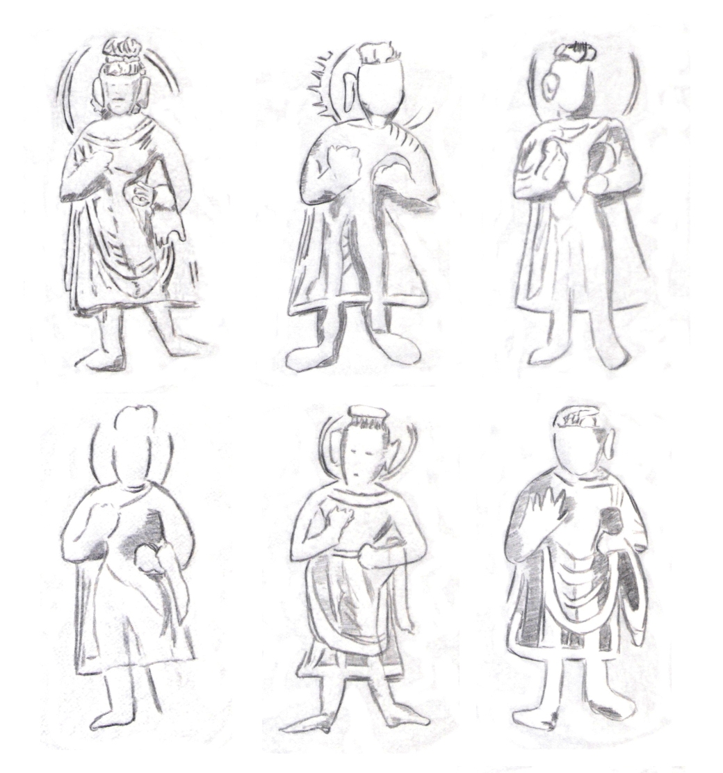 Kushan coins of the "Shakyamuni Buddha". Personal drawing. Sources (from top left image): Source Source Source Source Source Source